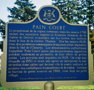 Historic plaque which one can see in the village of Pain Court.